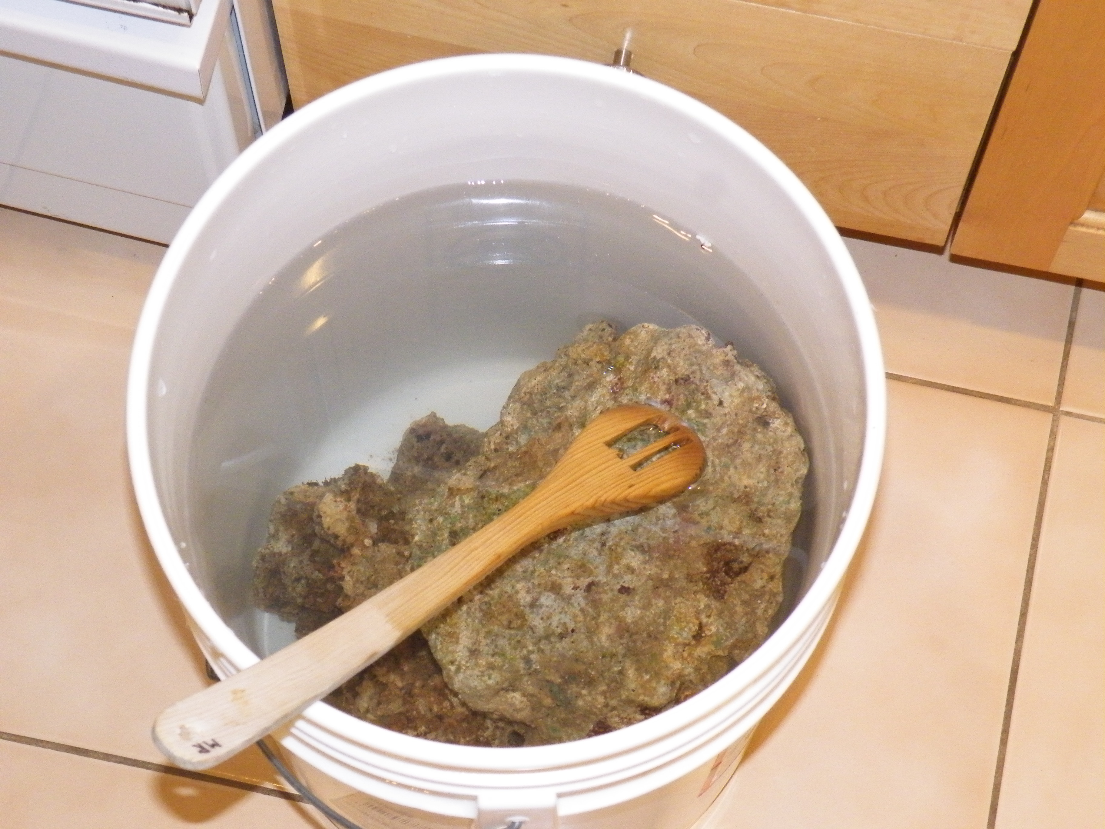 The three pieces of live rock that ended up in my reef tank, prior to my prepping the tank for them. They are from Fiji.